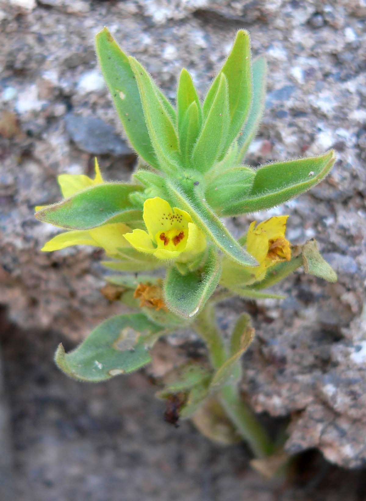 Photo of Mohavea breviflora near the western (Nevada) shore of Lake Mead